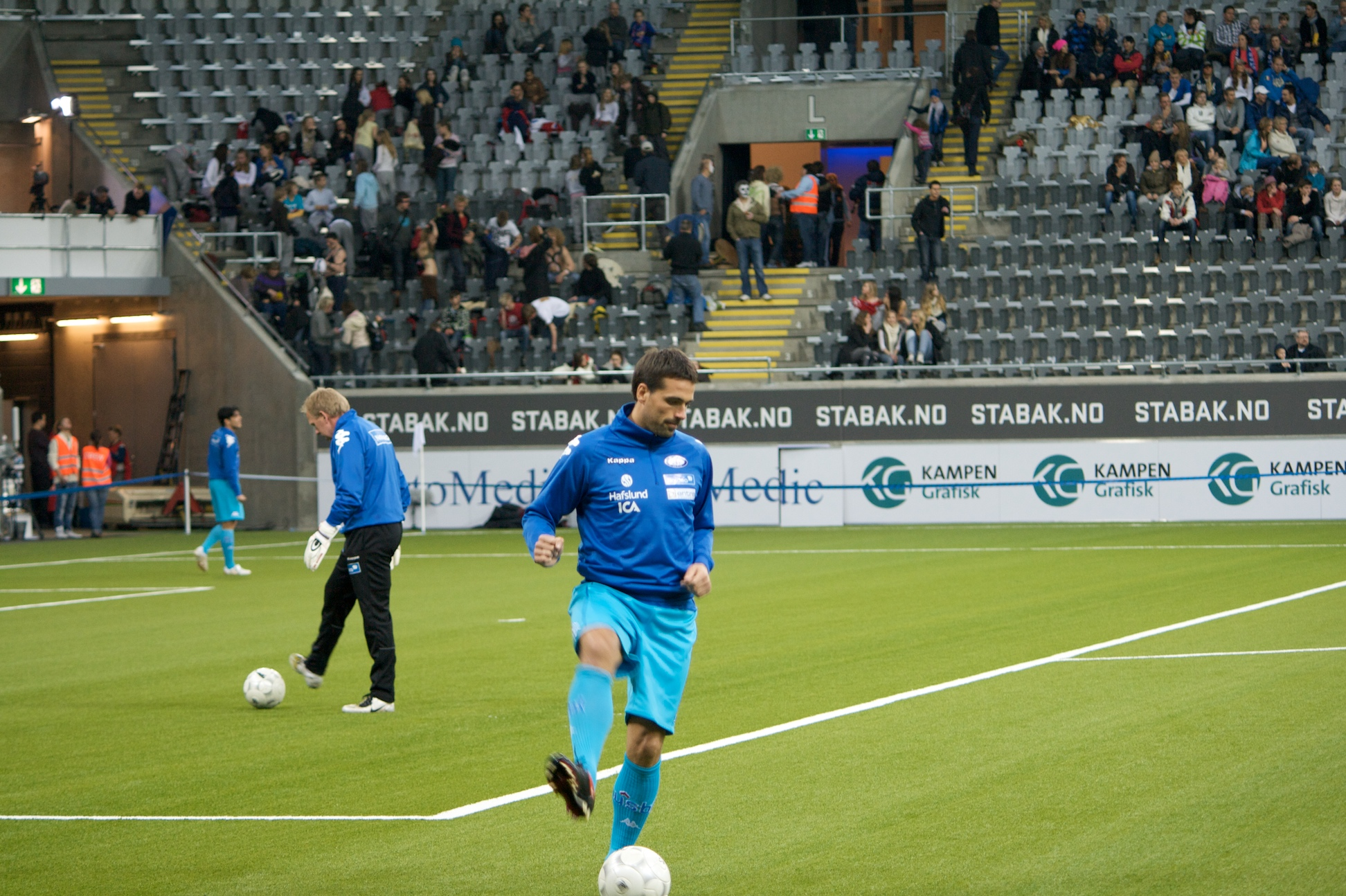 Norwegian footballer Martin Andresen.